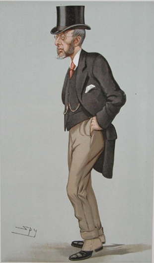 Caricature of John Gilbert Talbot M.P.. Caption read "Oxford University".